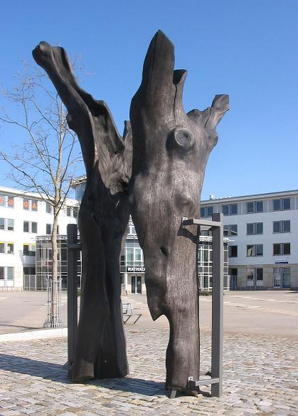 Sculpture Stundeneiche (german for: hoursoak) at town hall square Ludwigsfelde, created by the artist Franziska Uhl in 2005. Ludwigsfelde is a town in the district Teltow-Fläming, state Brandenburg, Germany.